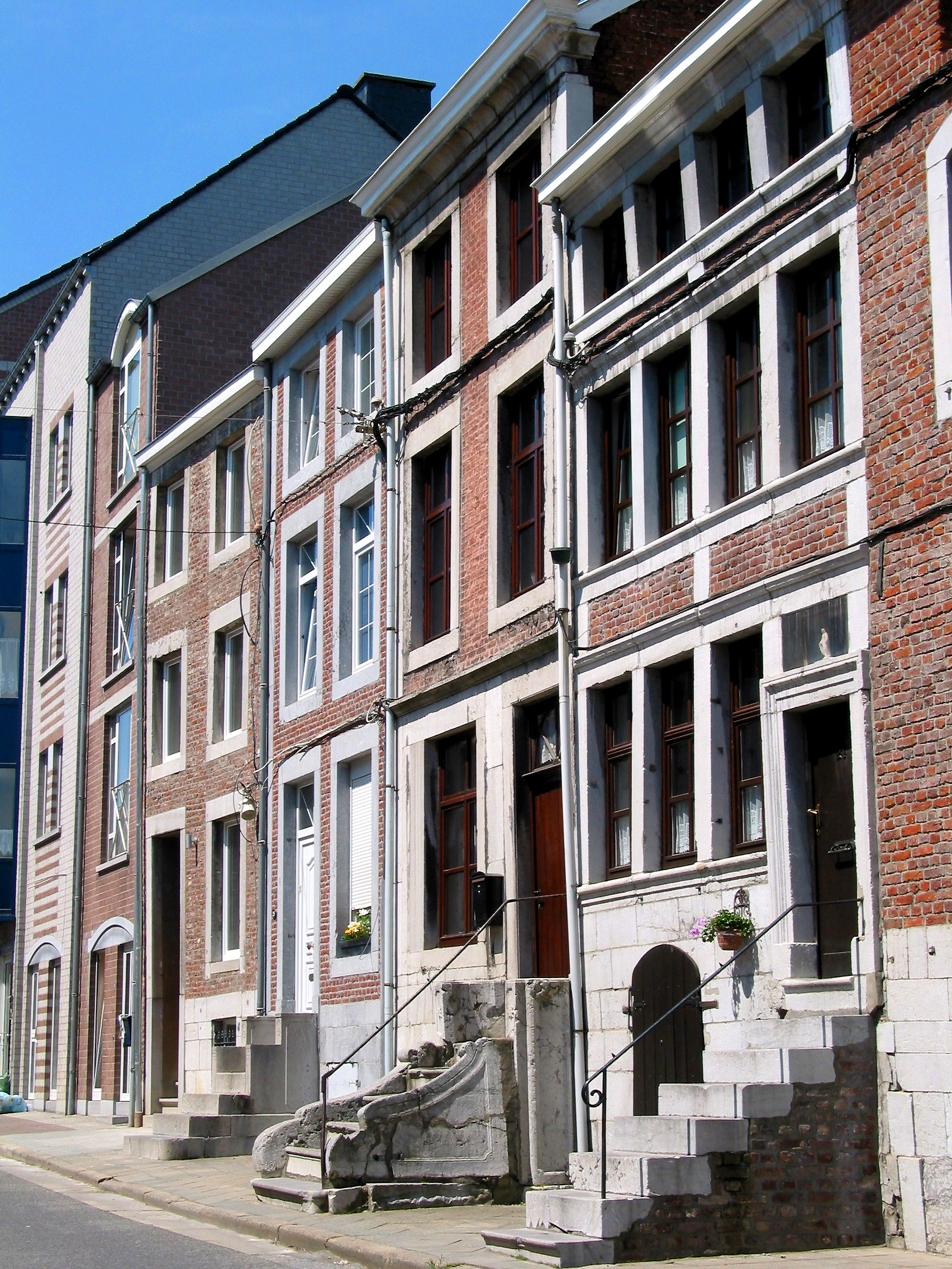 Herve (Belgium), ), old houses with their typical perrons.